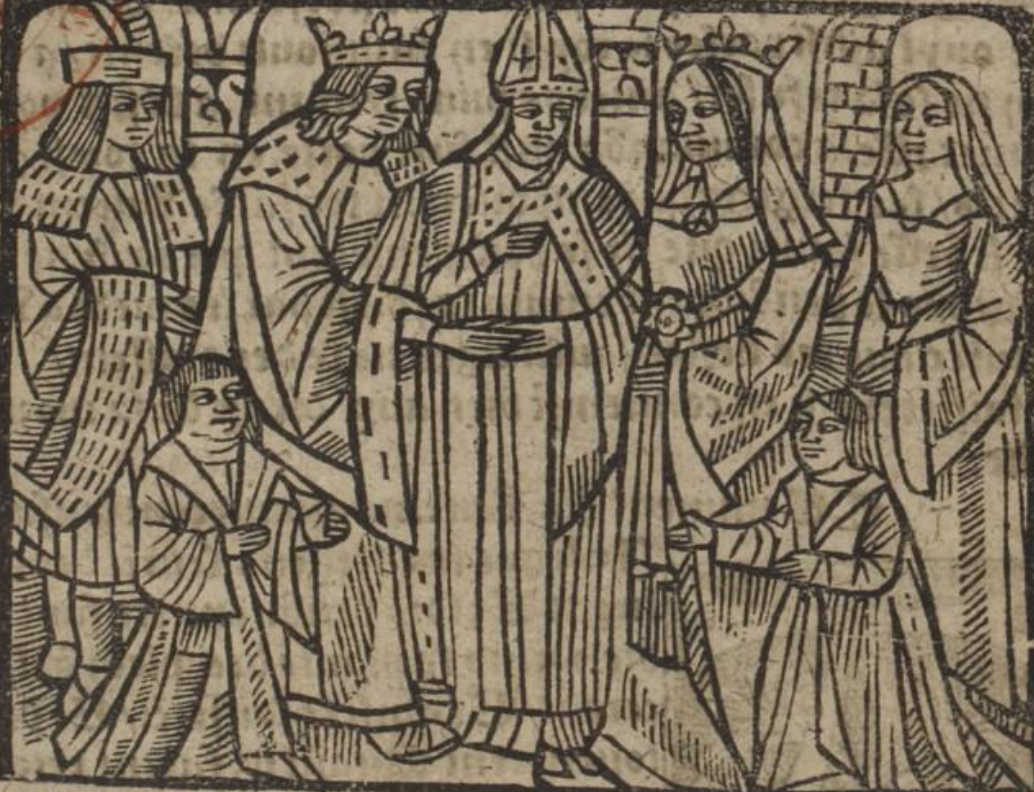 Miniature from the first page of the medieval book "Le Roman de Edipe" printed by Pierre Sergent